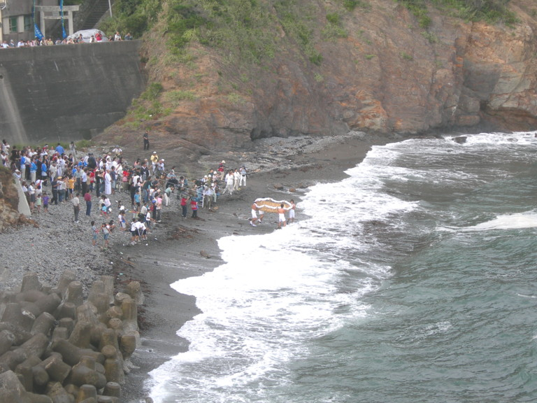 Nakiri-jinja at Daiou-Nakiri Shima city, Mie Pref., Japan.